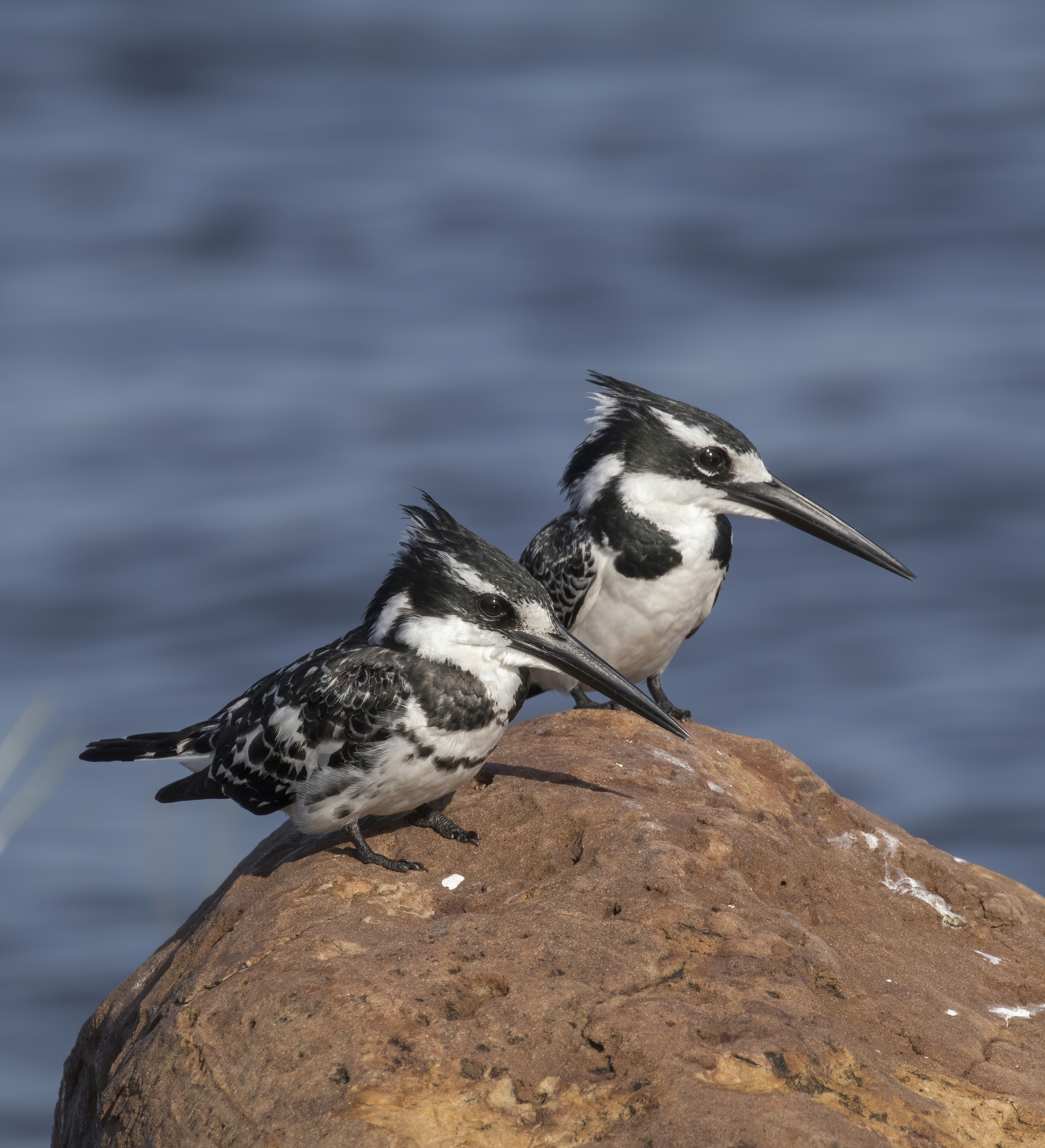 Pied kingfishers (Ceryle rudis rudis) male (L) female (R), Chobe National Park, Botswana. They are monogamous and the pair spend much time together.